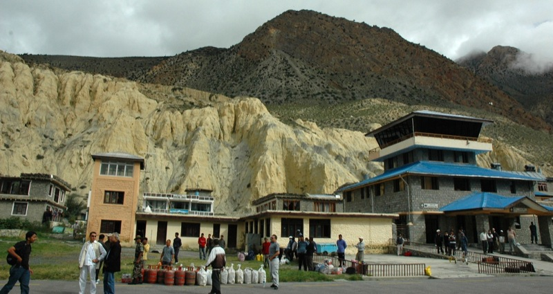 Jomsom airport